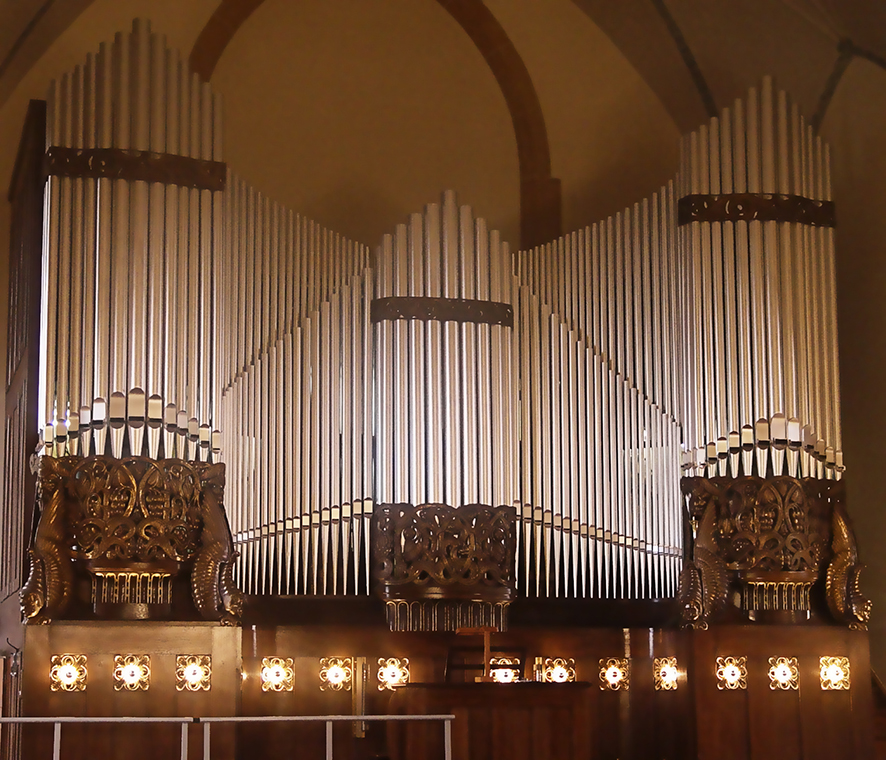 Prospekt der 1913 errichteten Strebel-Orgel (32 klingende Register) in der evang.-luth. Heilig-Kreuz-Kirche in Röthenbach an der Pegnitz